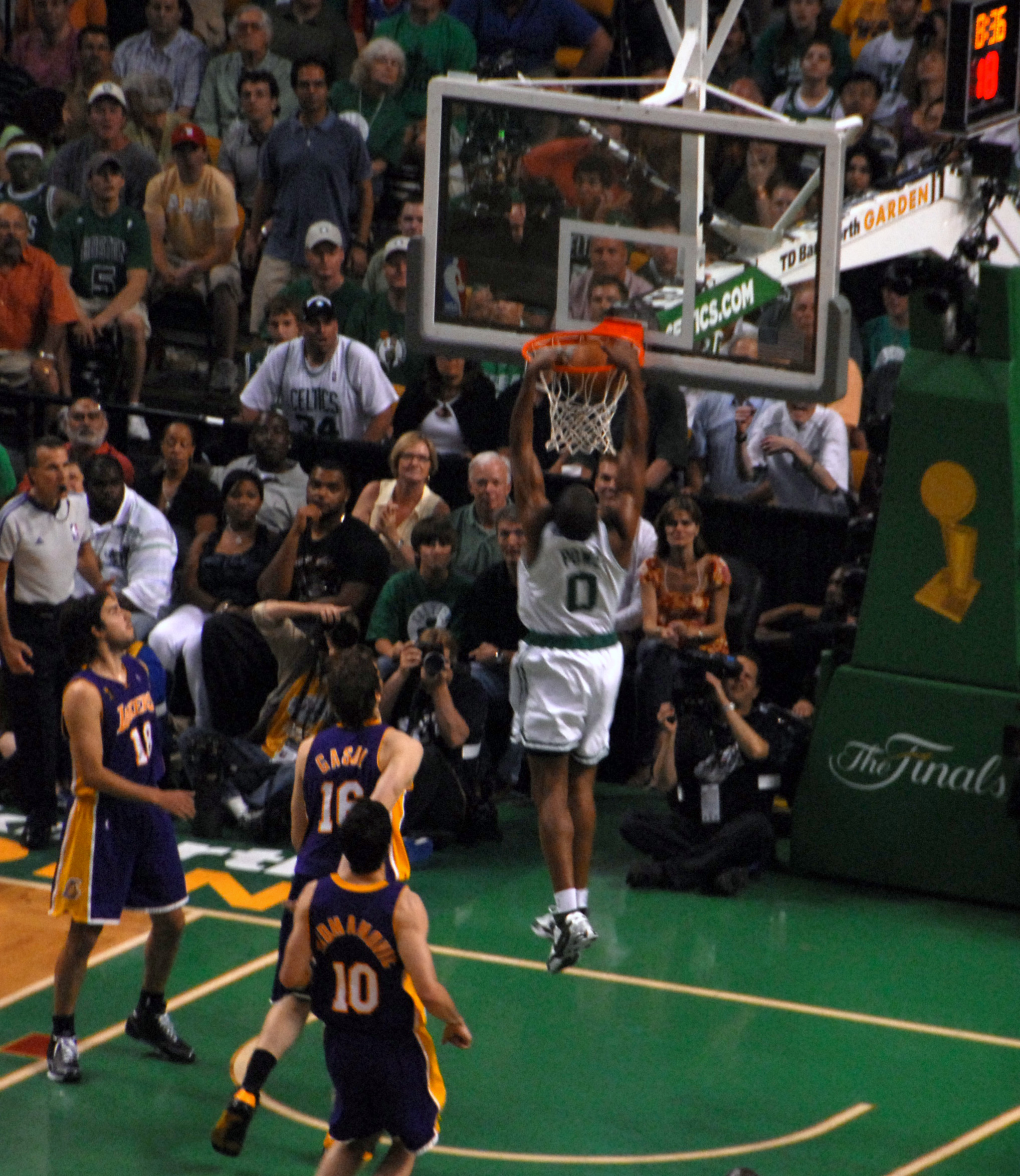 took it in from beyond half court for an uncontested dunk